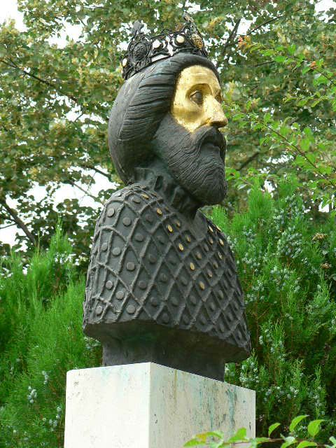 Szent László szobra a szabolcsi református templom kertjében